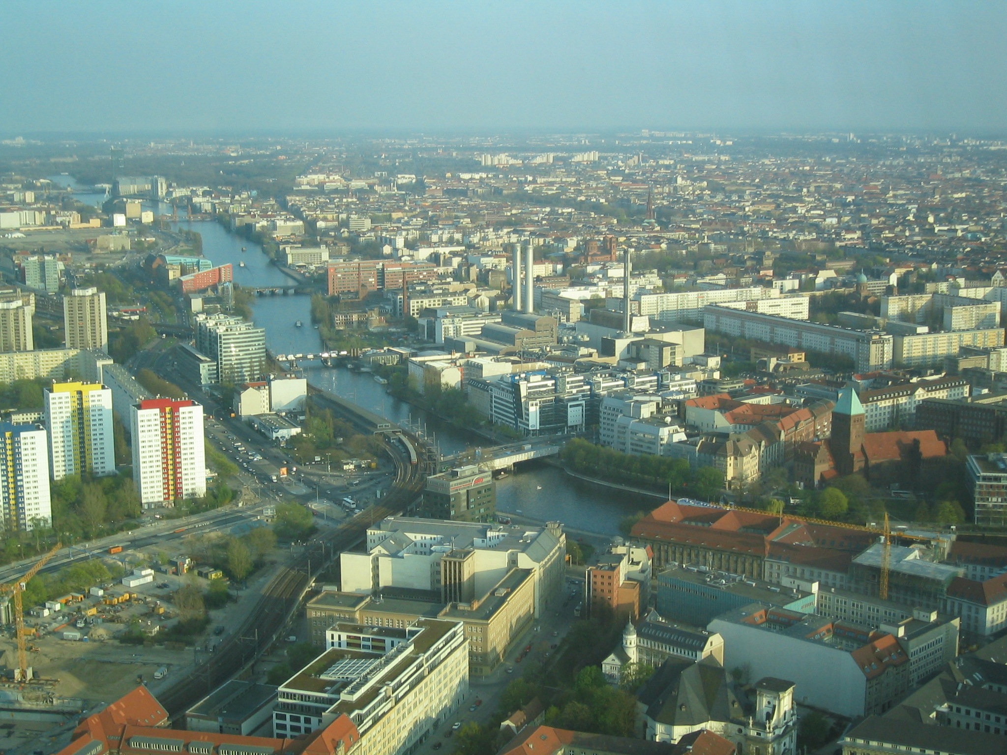 View over the Spree in Berlin, Germany, from the Fernsehturm